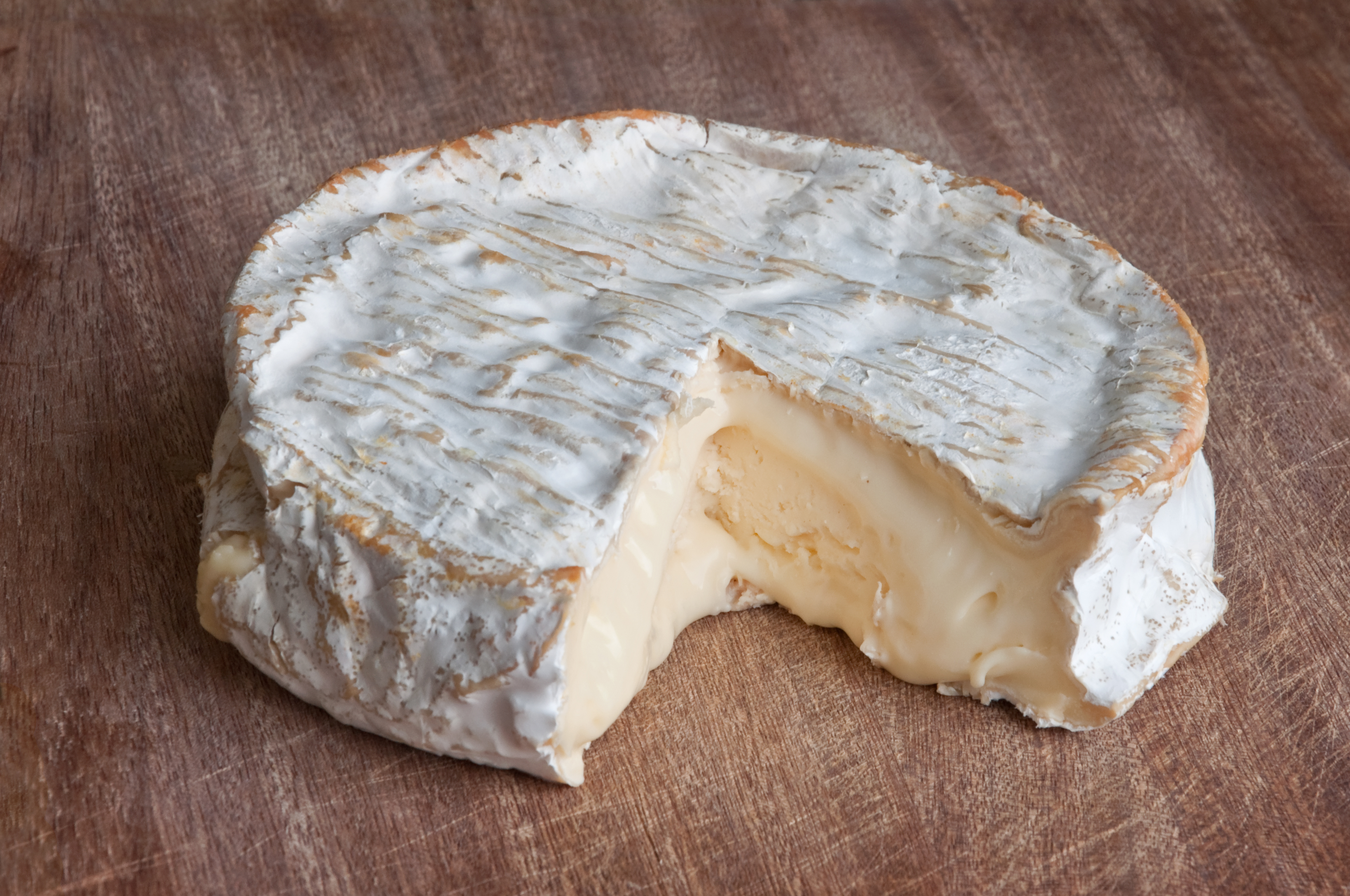 A Coulommiers cheese made from unpasteurised cow's milk.